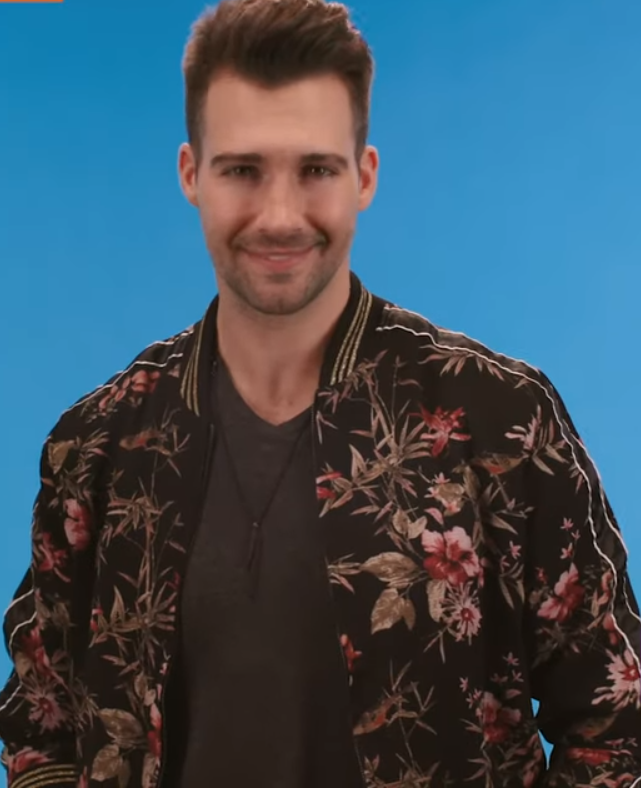 Beyoncé or SpongeBob? Kanye or TMNT? Join Kel Mitchell, Nathan Kress, Devon Werkheiser, Josh Server, Meagan Good, James Maslow, Daniella Monet, and Anthony Padilla as they guess if quotes are from their favorite cartoon characters or musical superstars!